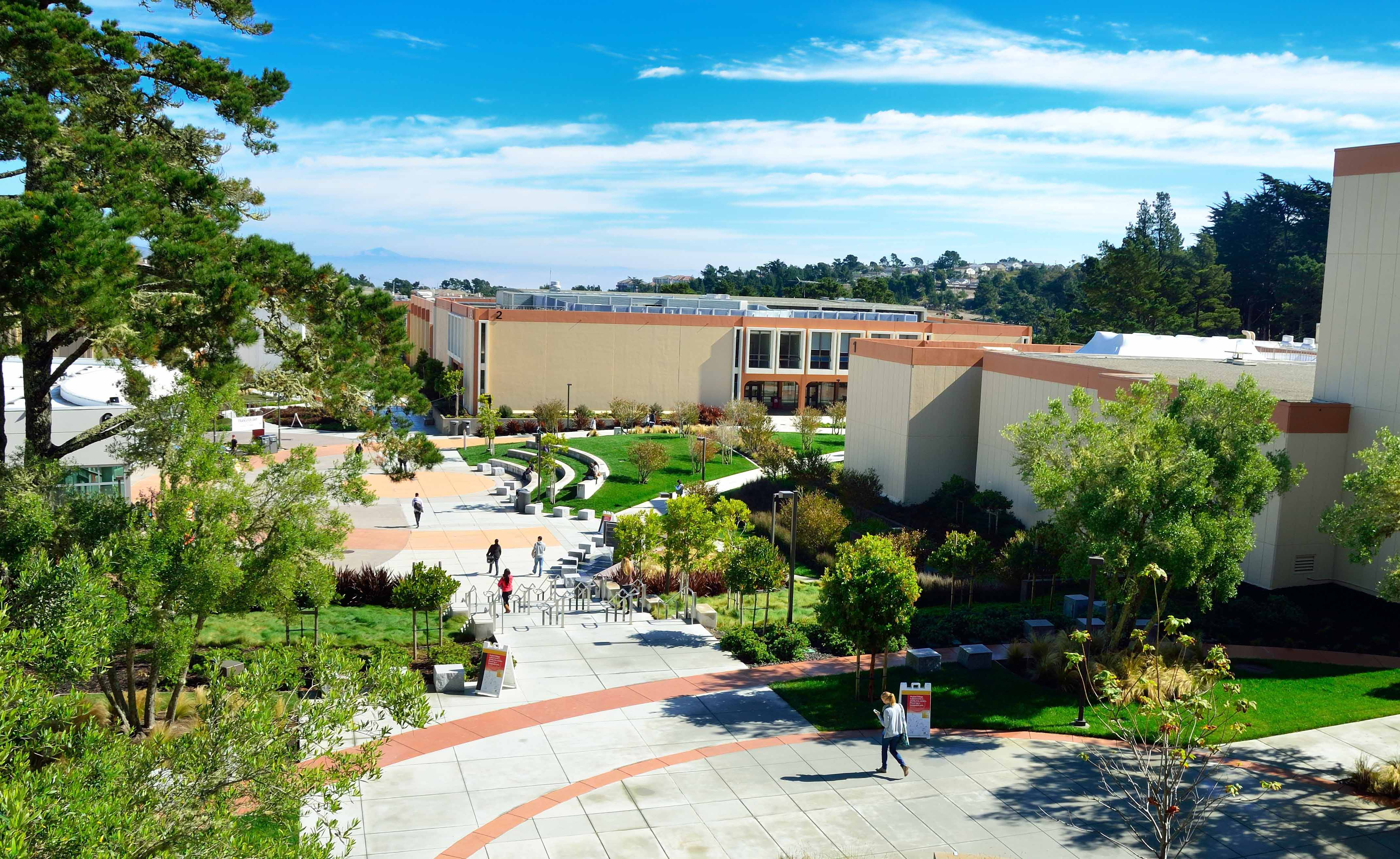 skyline college campus and main quad